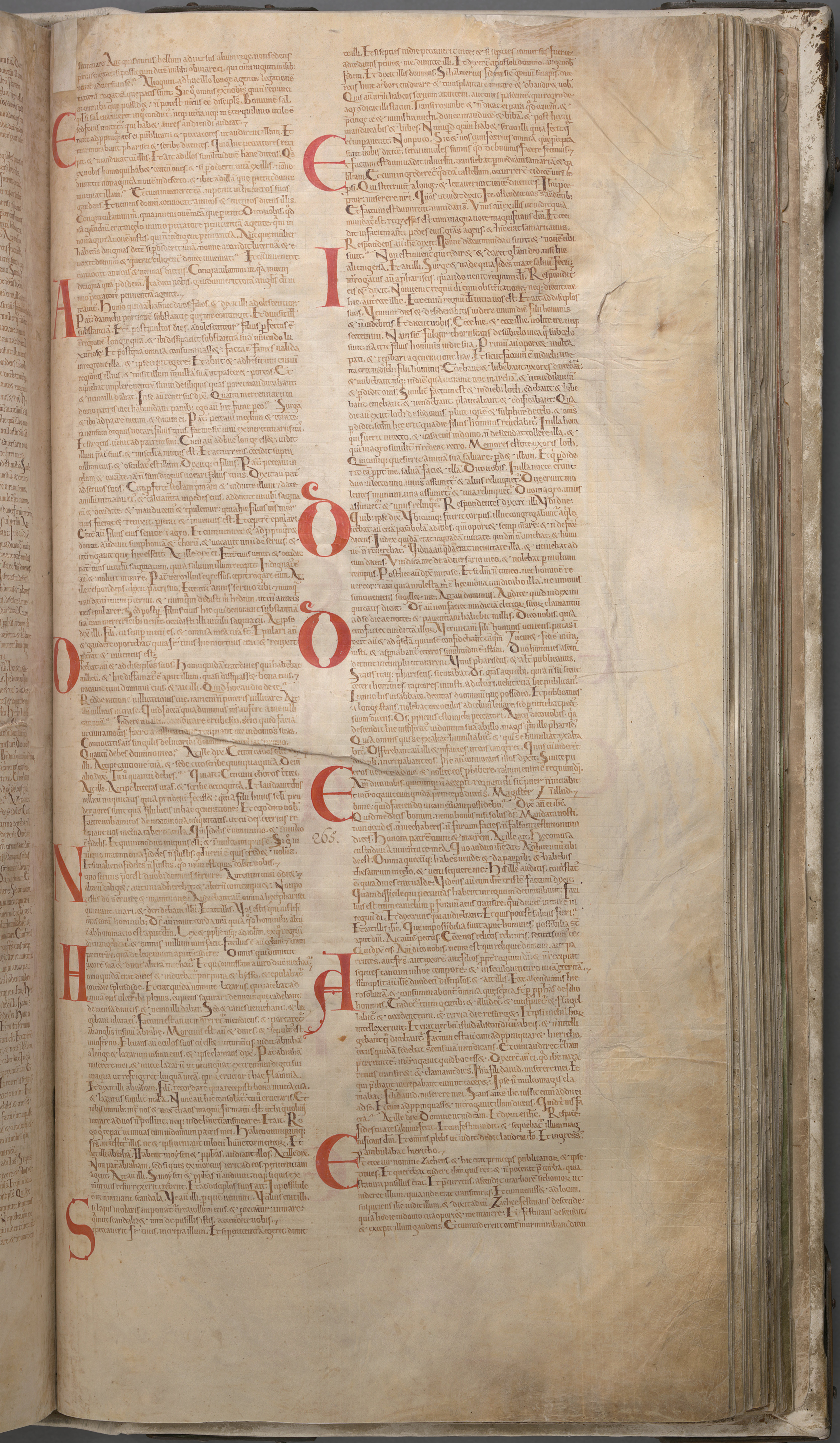 Giant Book) is the largest extant medieval manuscript in the world. It is also known as the Devil's Bible because of a large illustration of the devil on the inside and the legend surrounding its creation. It is thought to have been created in the early 13th century in the Benedictine monastery of Podlažice in Bohemia (modern Czech Republic). It contains the Vulgate Bible as well as many historical documents all written in Latin. During the Thirty Years' War in 1648, the entire collection was taken by the Swedish army as plunder, and now it is preserved at the National Library of Sweden in Stockholm, though it is not normally on display.